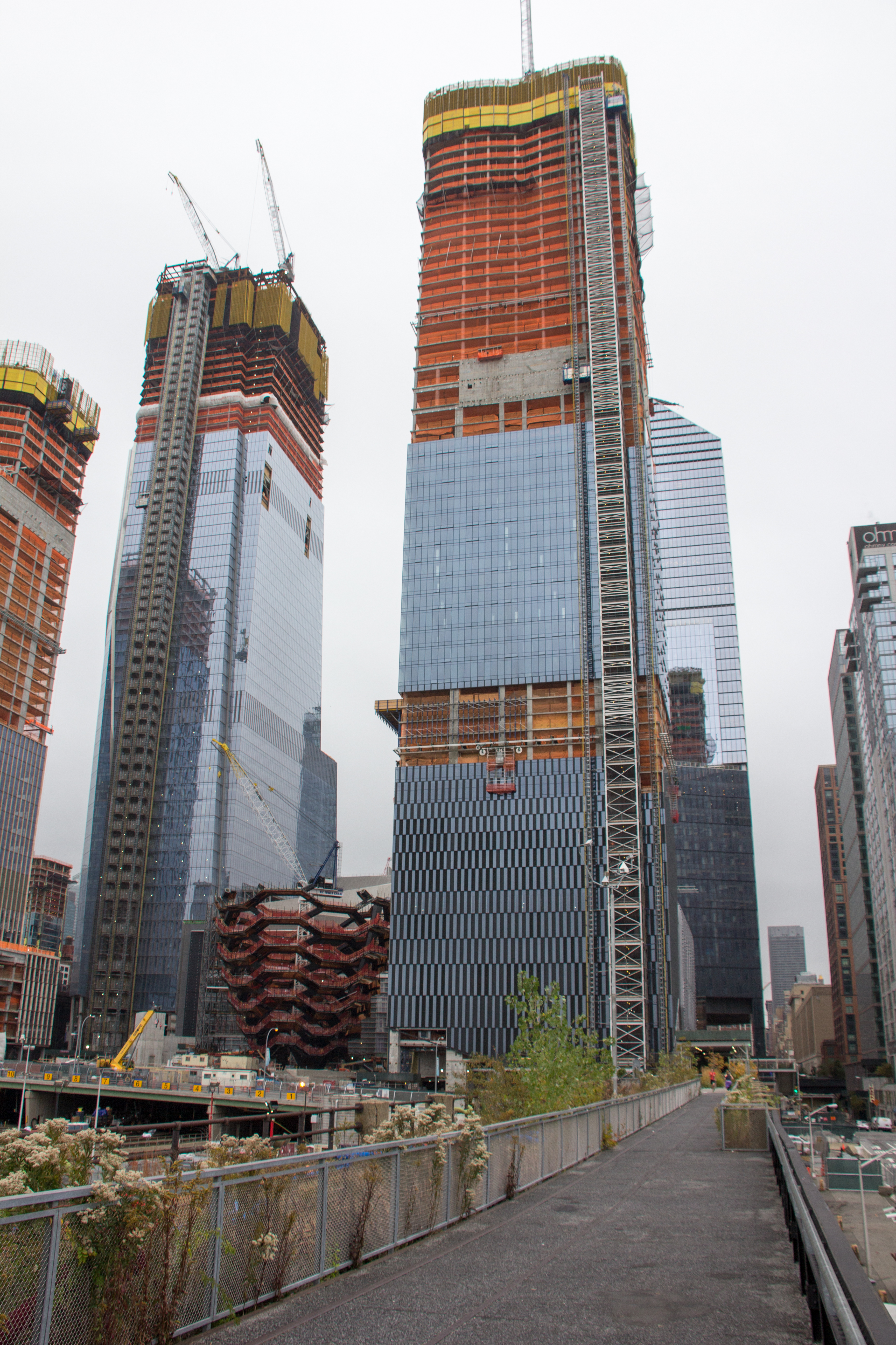 The communication and walking structure, provisionally named The Vessel, a building in New York City, USA, with many stairs, but without elevator, designed by Thomas Heatherwick and others, between skyscrapers. The future sightseeing object is surrounded by skyscraper 10 Hudson Yards (meanwhile behind the new one '15 Hudson Yards' straight along the former railway line - part of Hudson Yards Redevelopment Project) with a view up to the investments and inhabitants (and from there out to the Hudson river). A View from the former High Line in New York City, now a park, taken in November 2017.